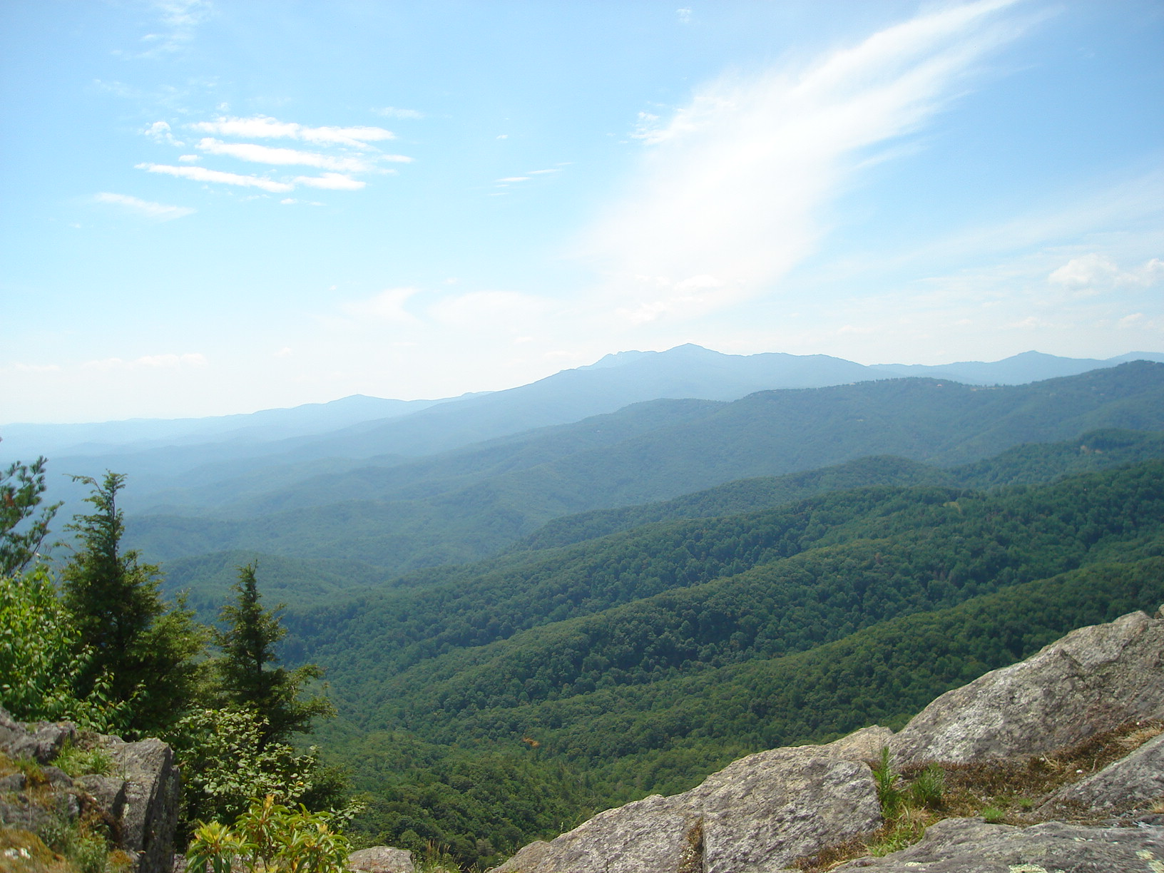 Blowing Rock is a rocky outcropping, at the town of Blowing Rock, North Carolina, located over 1,500 feet above the Johns River Gorge, in the western part of the state. This picture was taken from the Blowing Rock Park, and shows the Blue Ridge Mountains in the foreground and Grandfather Mountain, the highest point in the eastern escarpment of the Blue Ridge Mountains, in the extreme background.